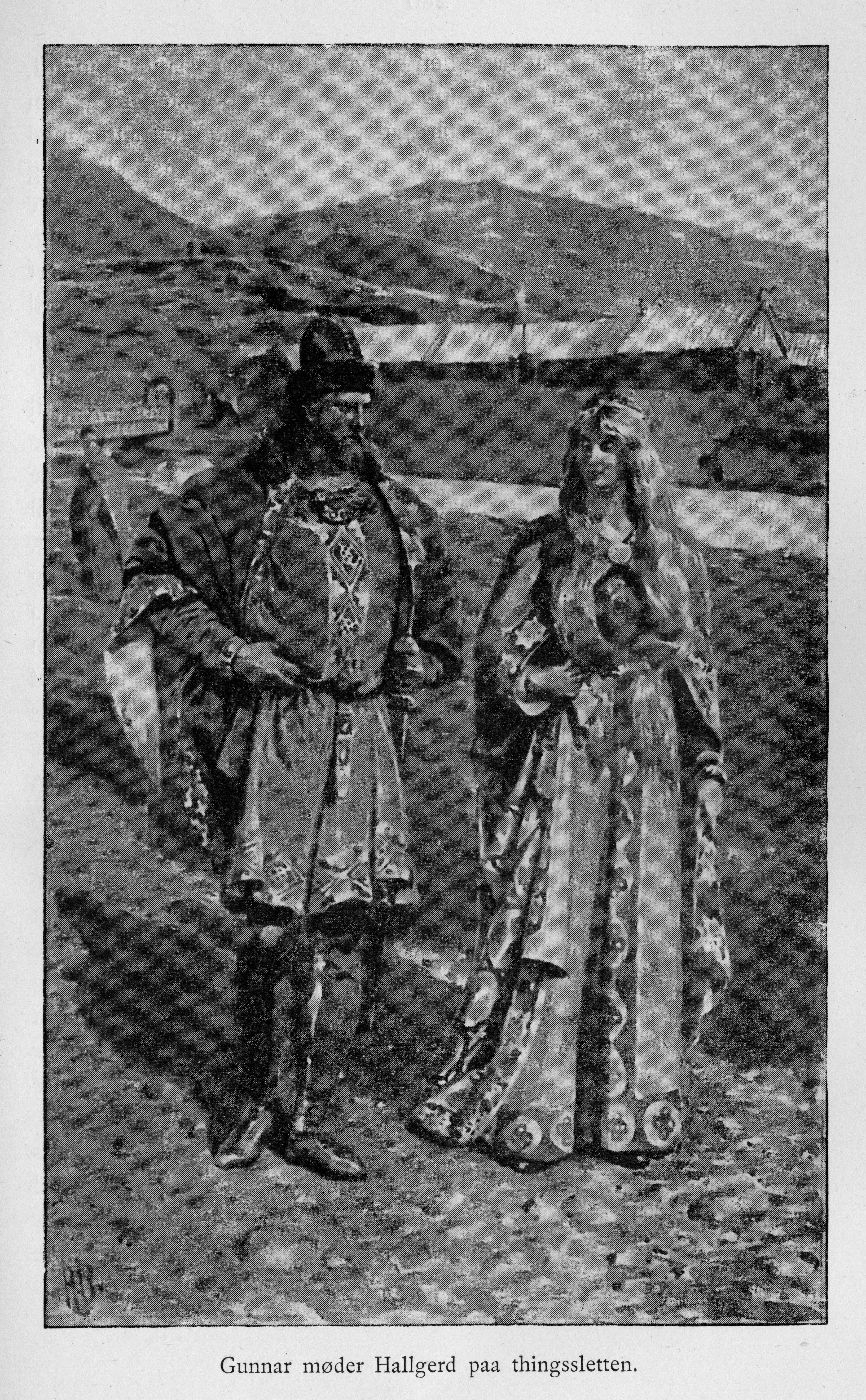 From Njáls saga: Gunnar Hámundarson meets Hallgerðr for the first time at Alþingi. Illustration from "Vore fædres liv" : karakterer og skildringer fra sagatiden / samlet og udggivet af Nordahl Rolfsen ; oversættelsen ved Gerhard Gran., Kristiania: Stenersen, 1898.